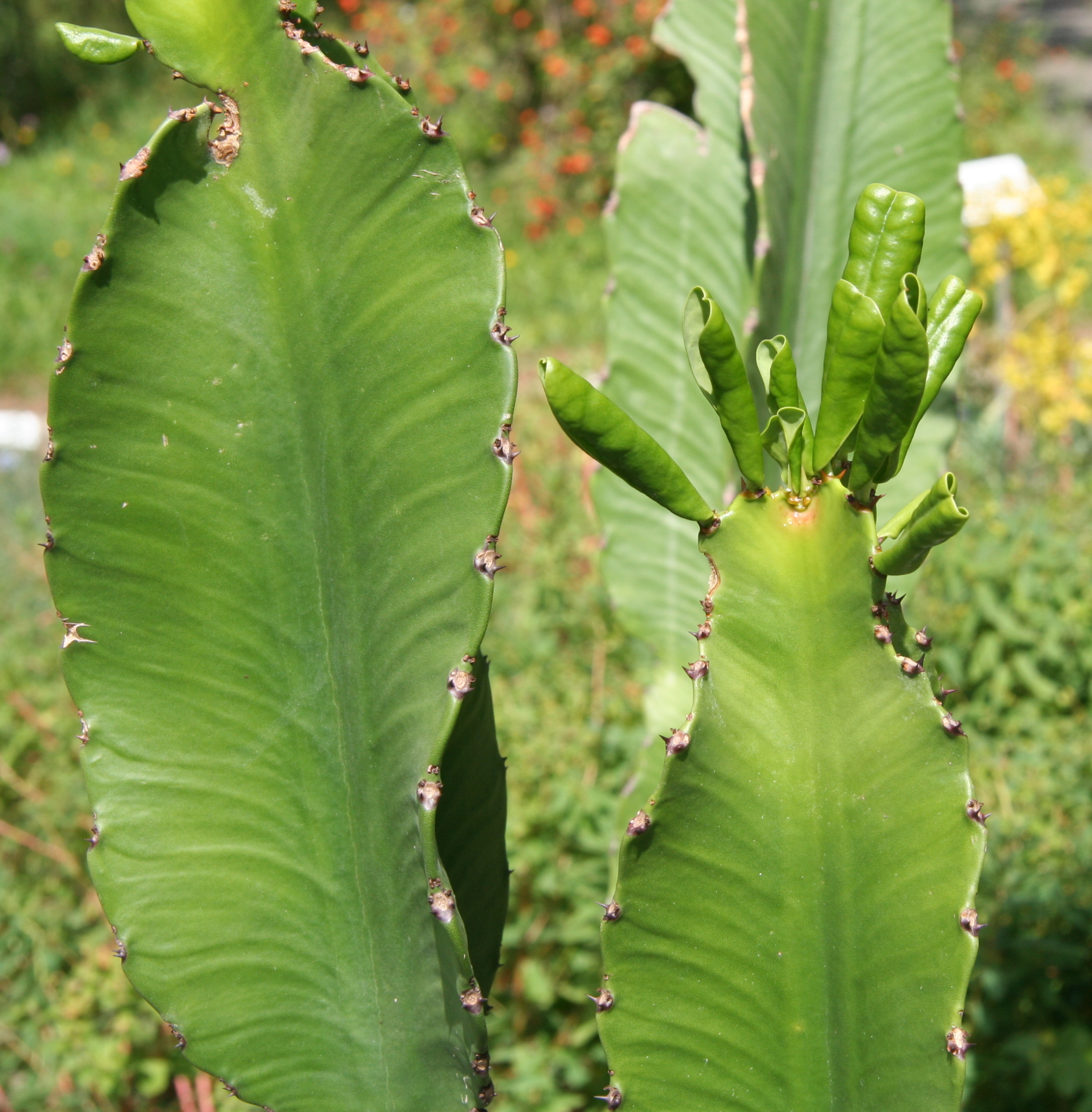 Euphorbia obovalifolia im Botanischen Garten Dresden; Synonym von Euphorbia abyssinica